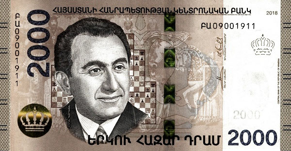 2000 dram 2018 Obverse